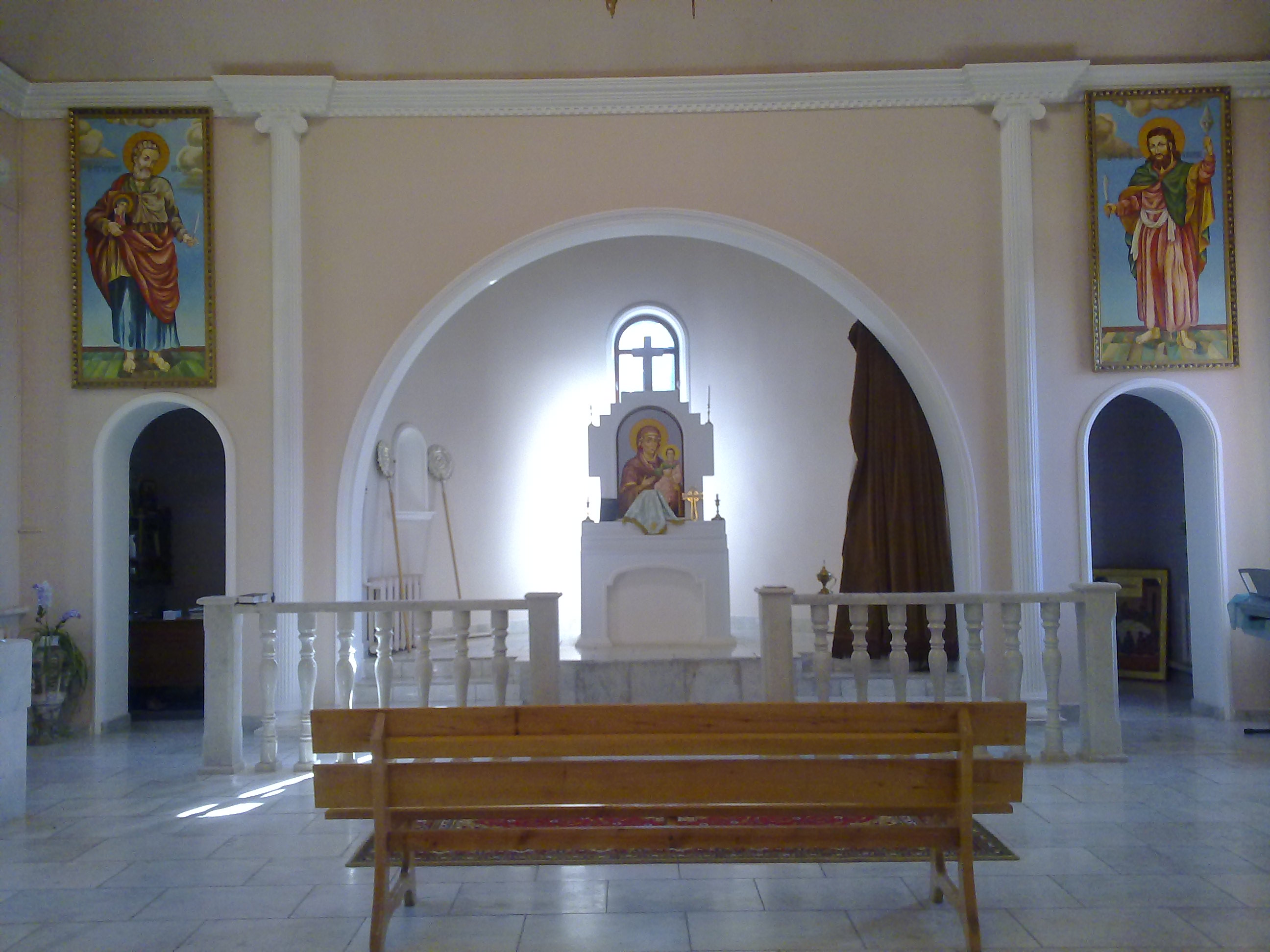 Armenian church of Saint Sargis in Slavyansk-na-Kubani (Russia). Altar